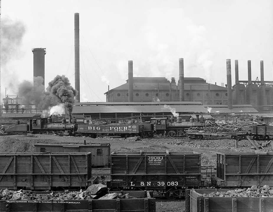 Photograph of the Tennessee Company's furnace at Ensley Alabama